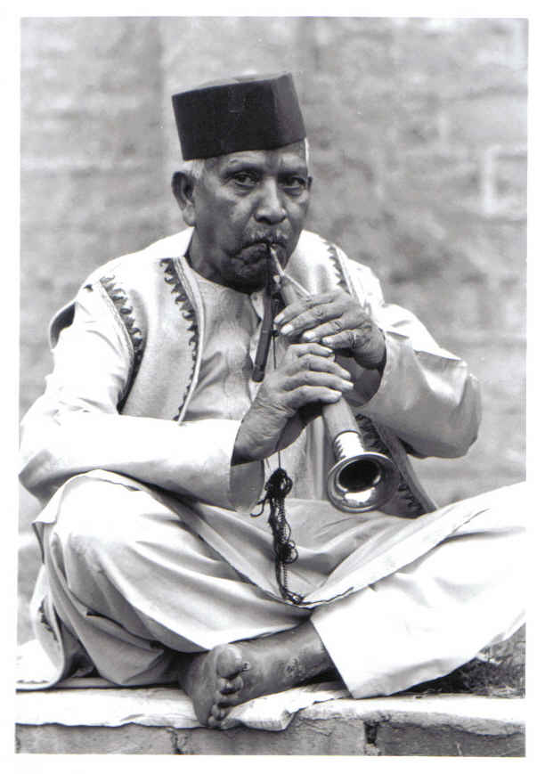 Raghunath Prasanna playing Shehnai